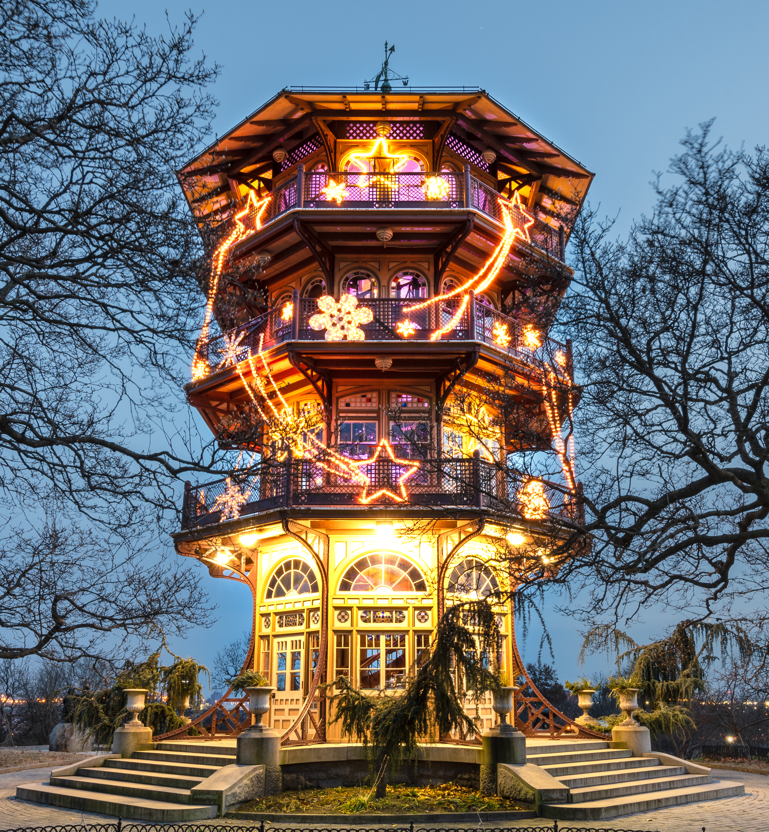 Patterson Park Christmas lights.